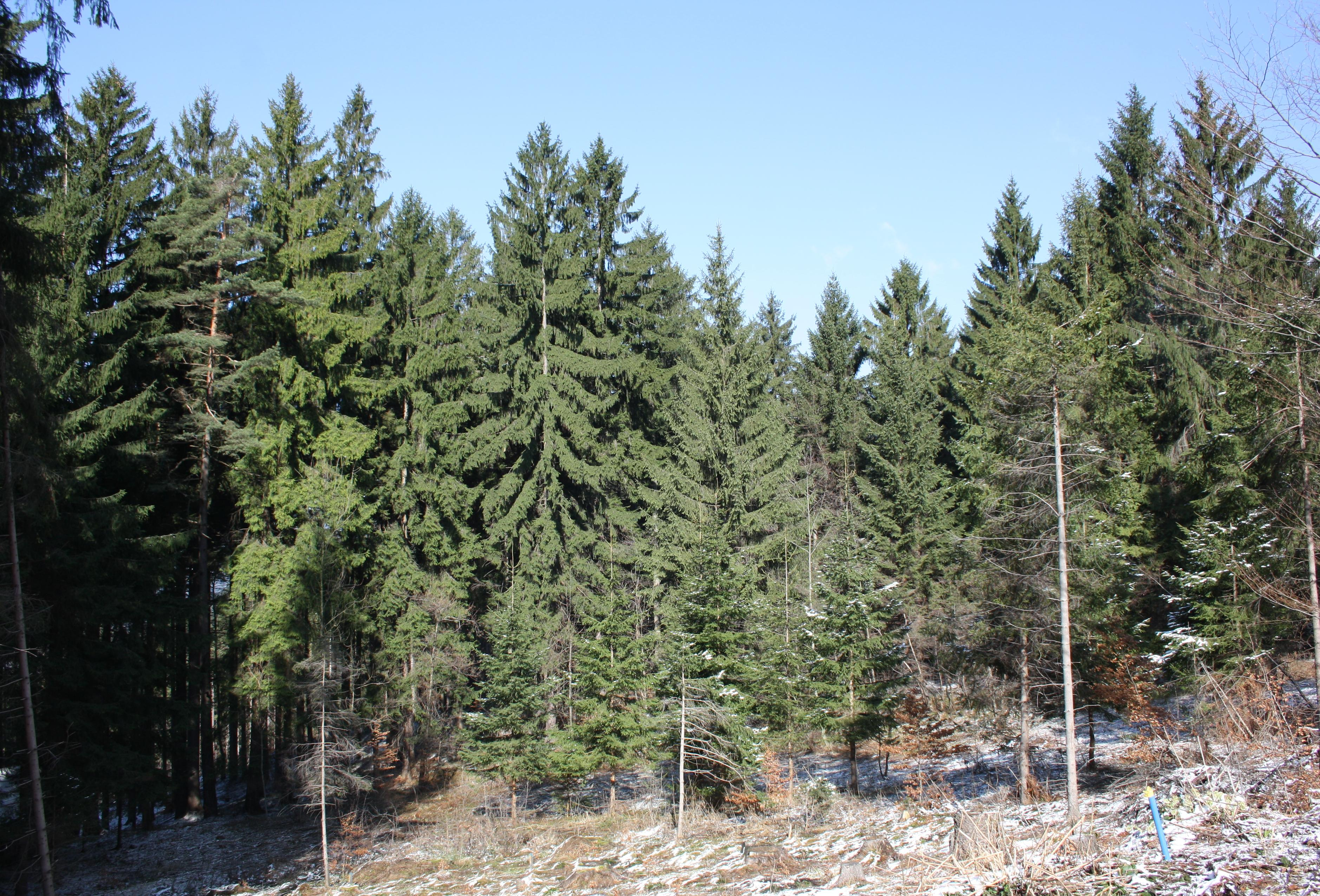 Rohovec, natural monument in Frýdek-Místek District, Moravian-Silesian Region, Czech Republic This photograph was taken with a DSLR from WMCZ's Camera grant.